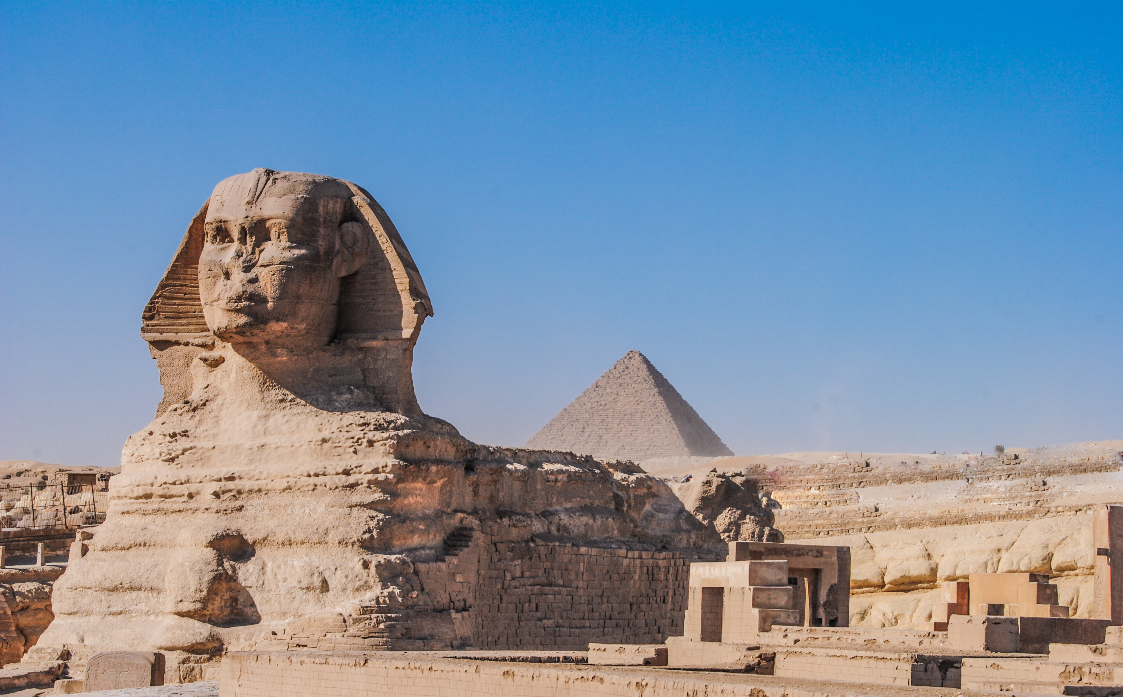 A sphinx (Ancient Greek: Σφίγξ [spʰíŋks], Boeotian: Φίξ [pʰíːks], plural sphinges) is a mythical creature with the head of a human and the body of a lion. In Greek tradition, it has the head of a human, the haunches of a lion, and sometimes the wings of a bird. It is mythicised as treacherous and merciless. Those who cannot answer its riddle suffer a fate typical in such mythological stories, as they are killed and eaten by this ravenous monster.[1] This deadly version of a sphinx appears in the myth and drama of Oedipus.[2] Unlike the Greek sphinx, which was a woman, the Egyptian sphinx is typically shown as a man (an androsphinx). In addition, the Egyptian sphinx was viewed as benevolent, but having a ferocious strength similar to the malevolent Greek version and both were thought of as guardians often flanking the entrances to temples.